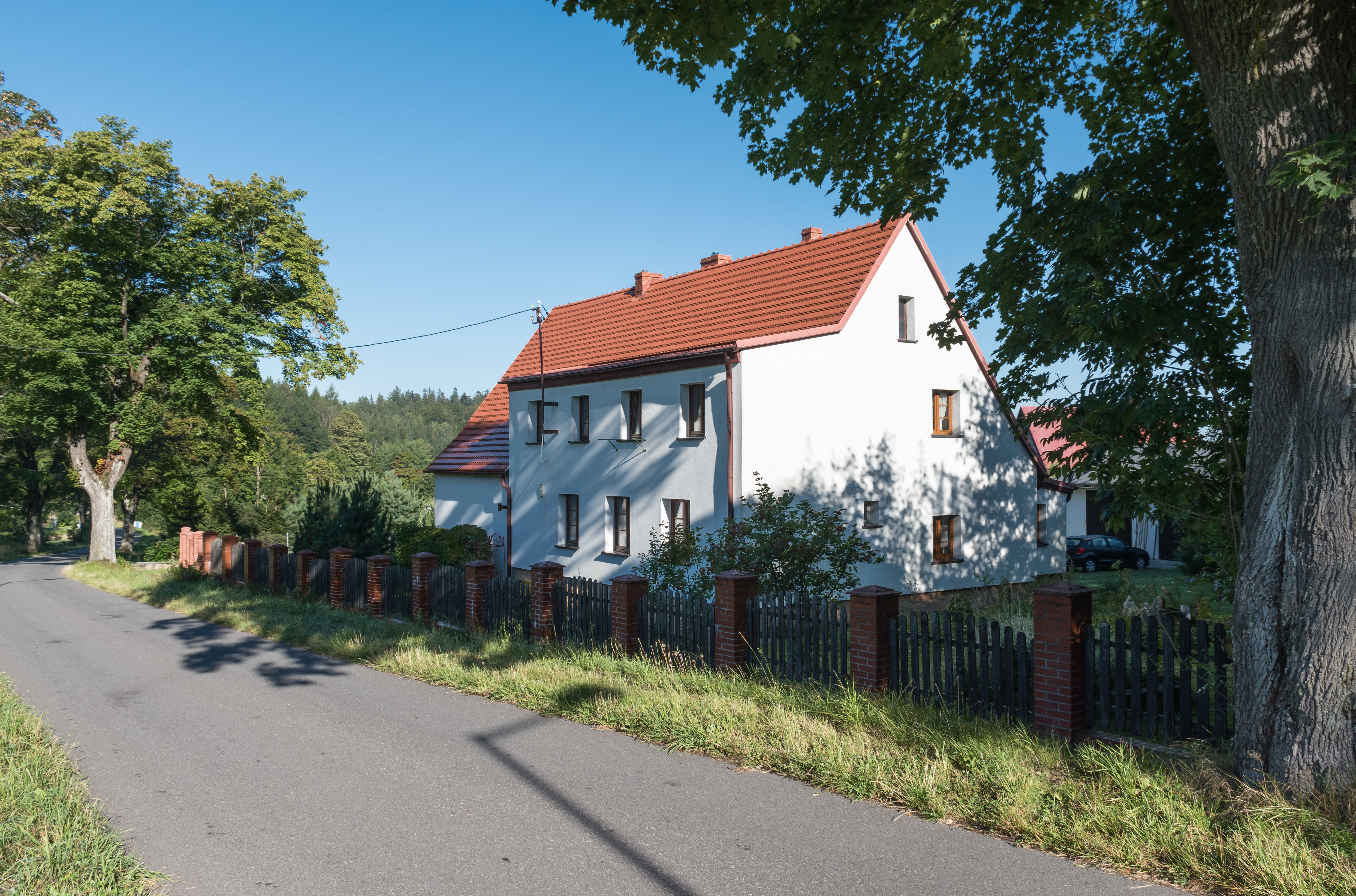 House in Młynowiec, gmina Stronie Śląskie